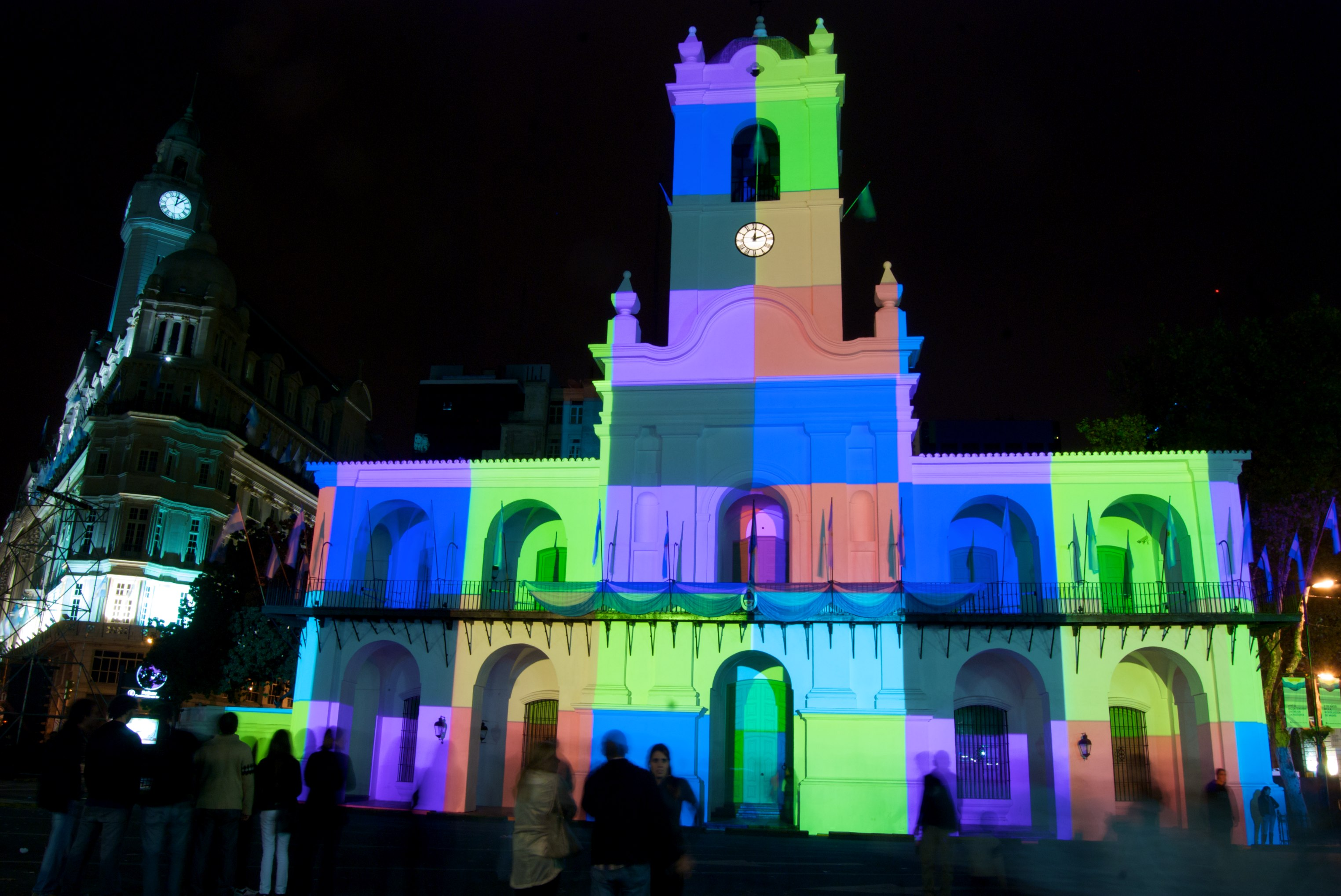 Cabildo. Celebrating the Argentine Bicentennial.